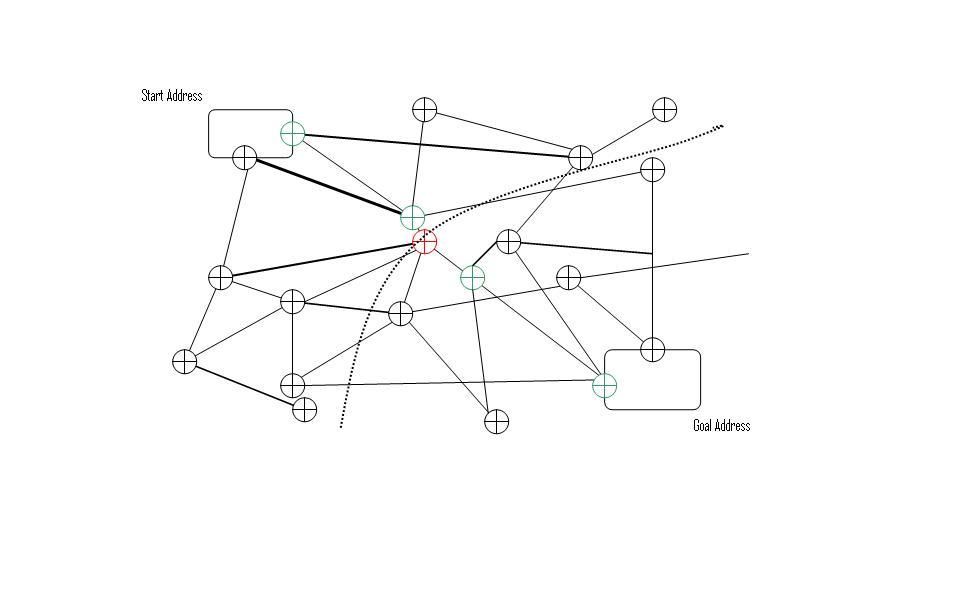 Road Map illustration for bidirectional search